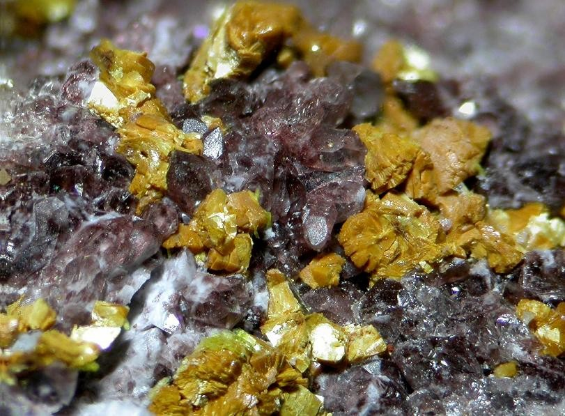 Carnotite Locality: Mashamba West Mine, Kolwezi, Western area, Katanga Copper Crescent, Katanga (Shaba), Democratic Republic of Congo (Zaïre) (Locality at ) Field of view 9 mm. Specimen and photo Leon Hupperichs.